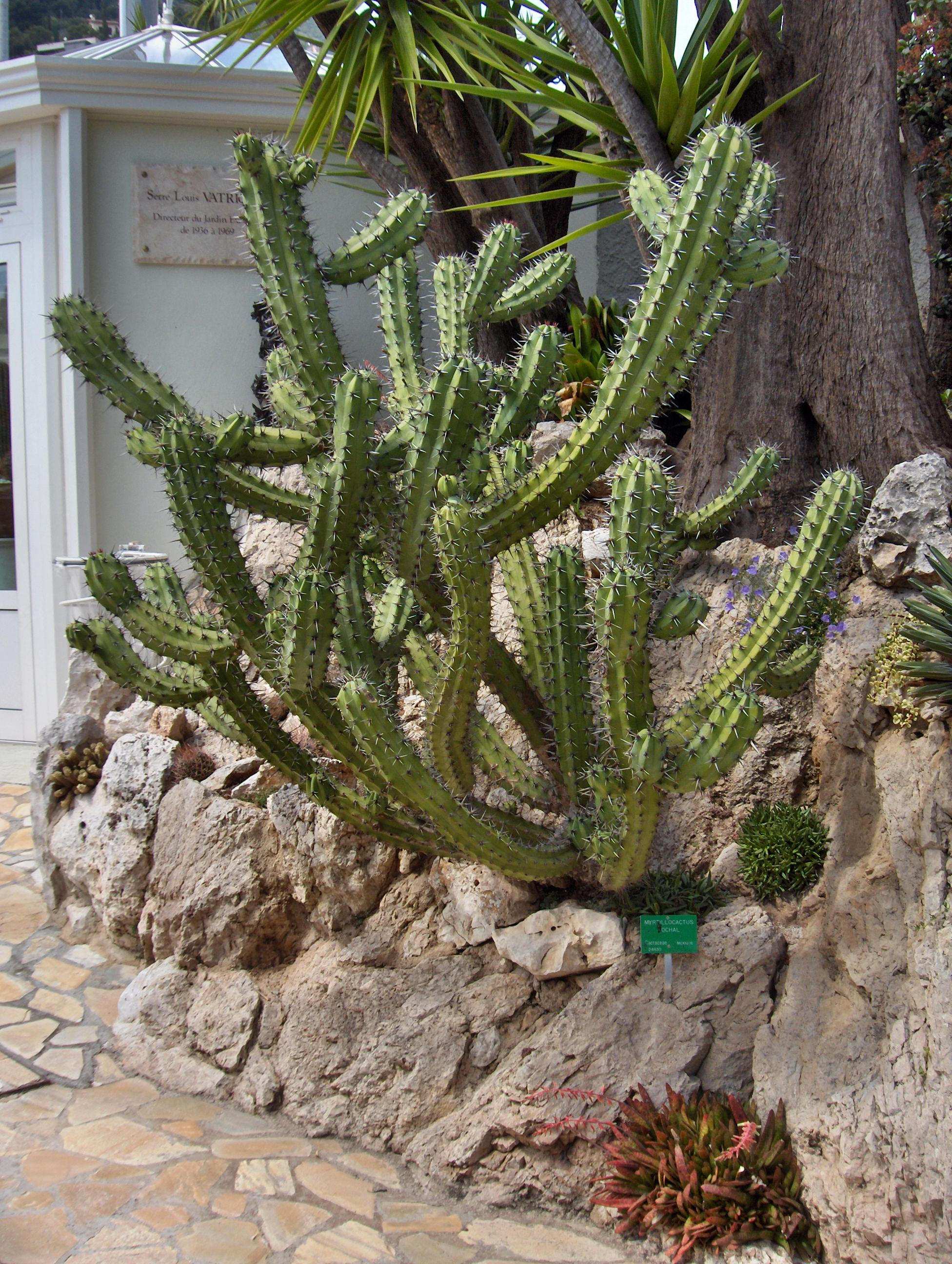 Myrtillocactus cochal; Exotic Garden; Monaco